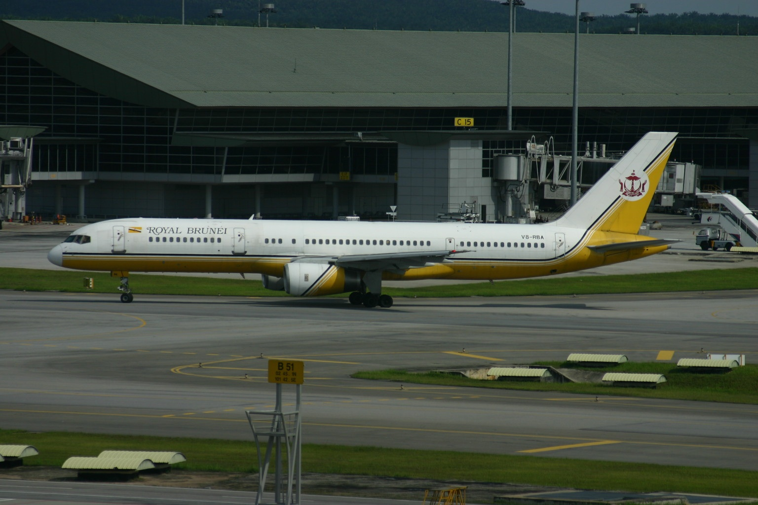 At Kuala Lumpur Sepang